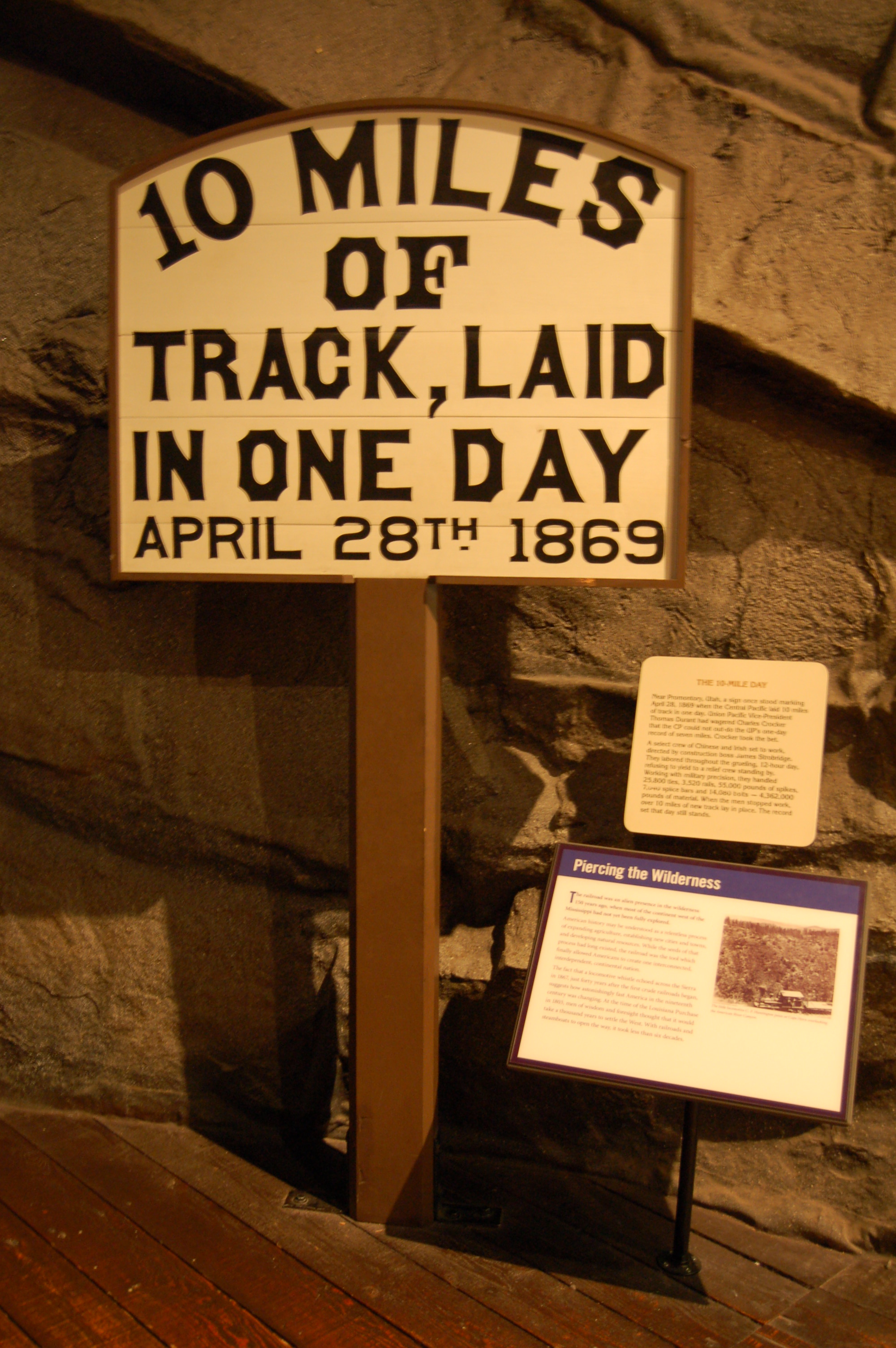 Sign celebrating 10 miles of track laid in one day during the building of the Transcontinental Railroad.